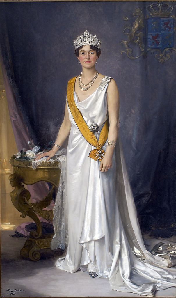 State portrait of Charlotte, Grand Duchess of Luxembourg